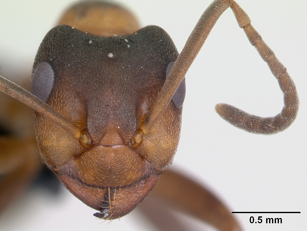 Head view of ant Formica foreli specimen casent0173871.